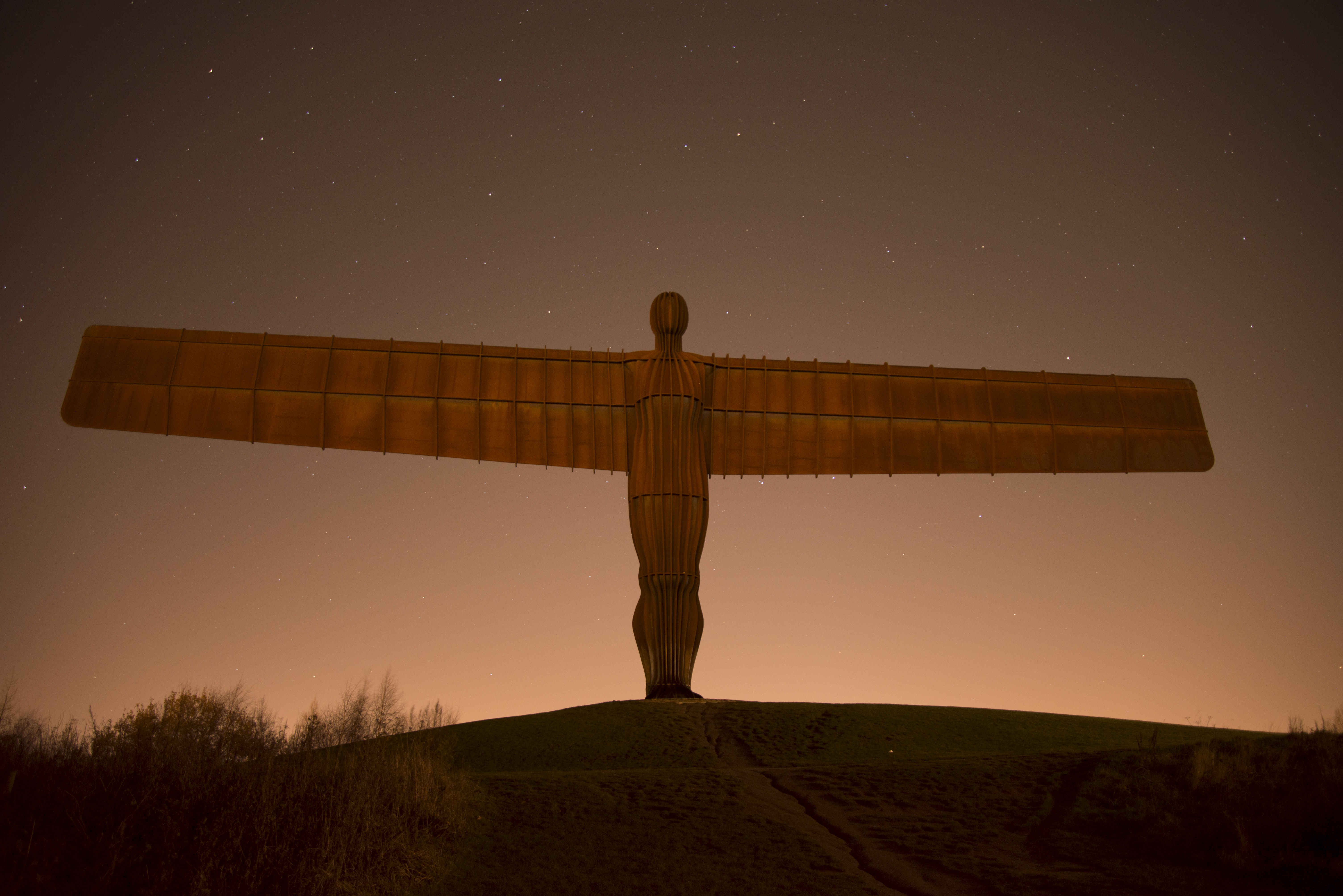 30 second exposure of the Angel of the North, Gateshead at night.